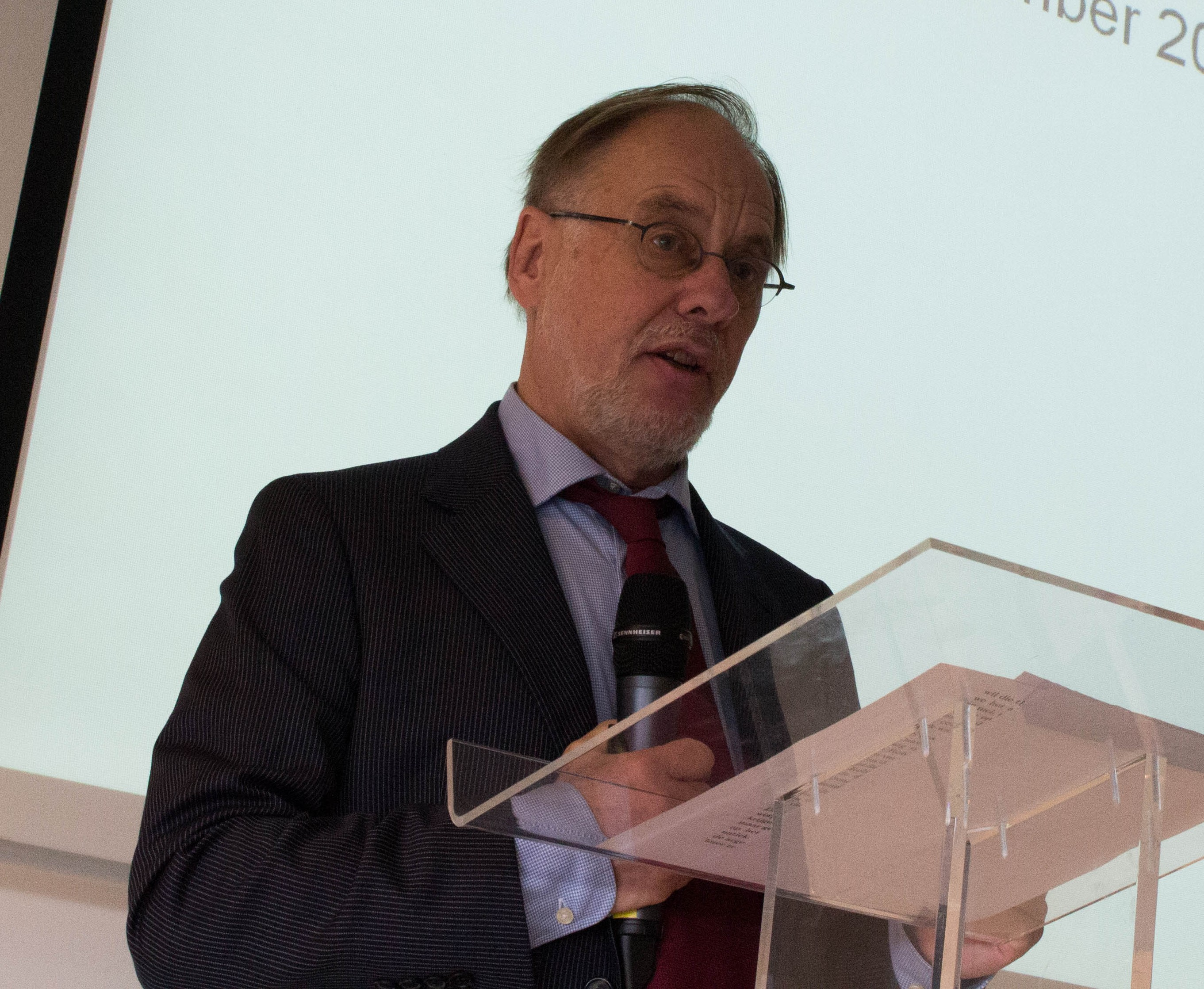 2014 Skepsis congres - crisis in science